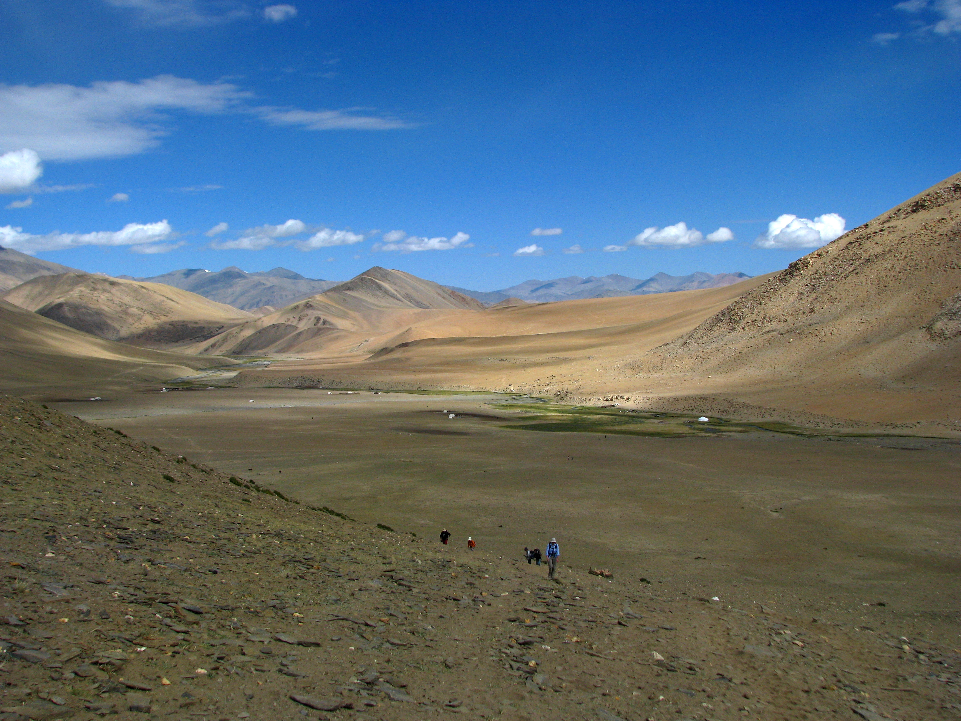 Day 4: Approx 6-7 hours This is the hard day as you cross 2 passes about 5400m high. This is ascending the first pass and looking back down at our last night's campsite. As we gain altitude to 5000m you can start to glimpse the rugged yet mutedly colourful hills and peaks of the Changthang Plateau region in south-eastern Ladakh.